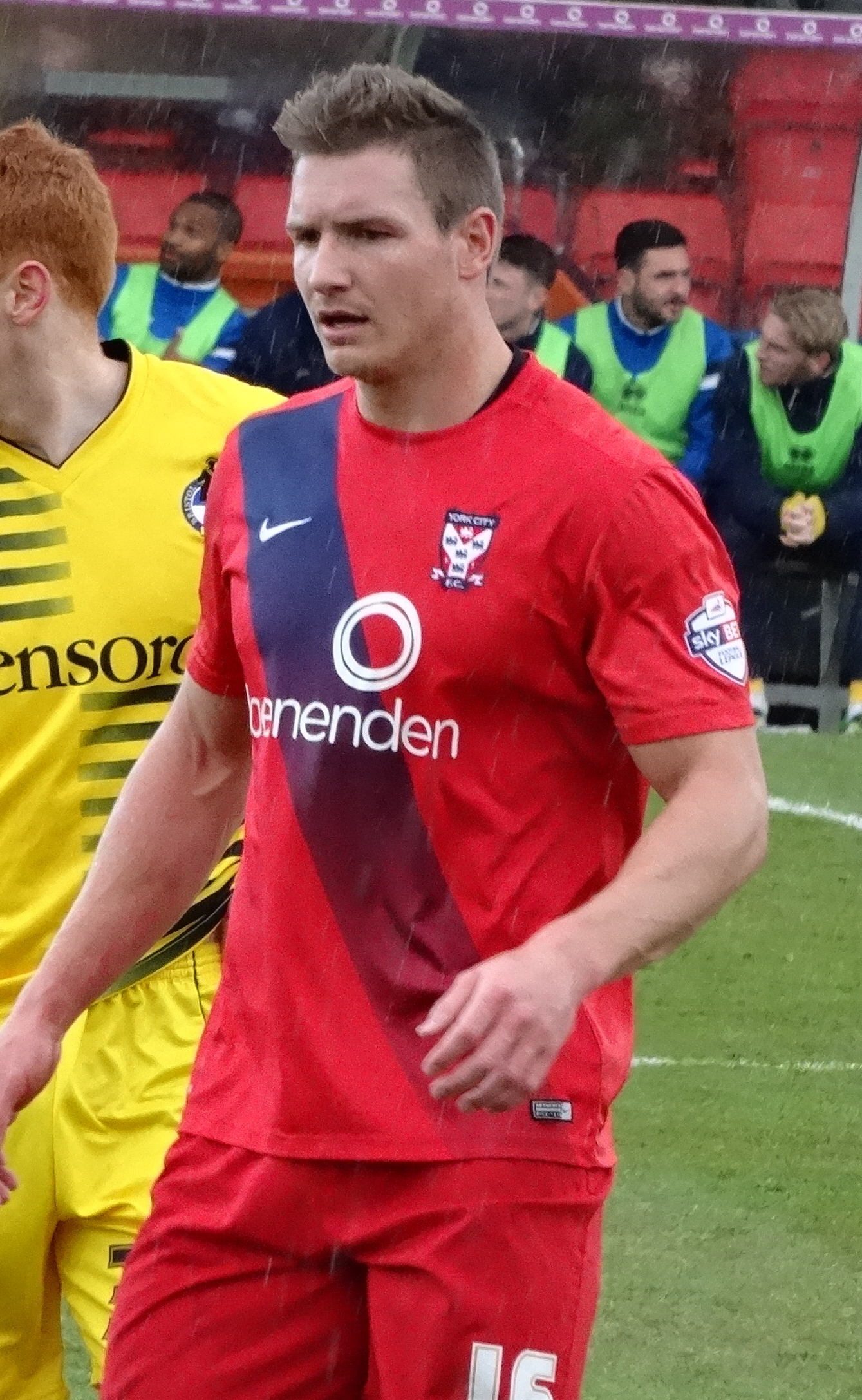 Dave Winfield playing for York City against Bristol Rovers at Bootham Crescent, York on 30 April 2016